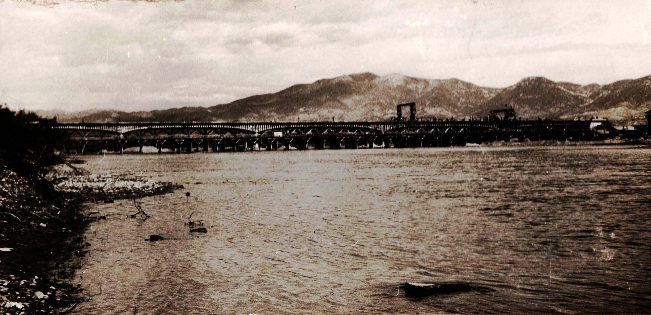 The construction of the bridge near Malosiste, Gevgelija. The bridge connects the motorway Ljubljana-Gevgelija (1950s). This media file is produced by Wikipedian in Residence in Category:Wikipedian in Residence at DARM in 2017.